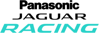 Logo of Formula E team Panasonic Jaguar Racing